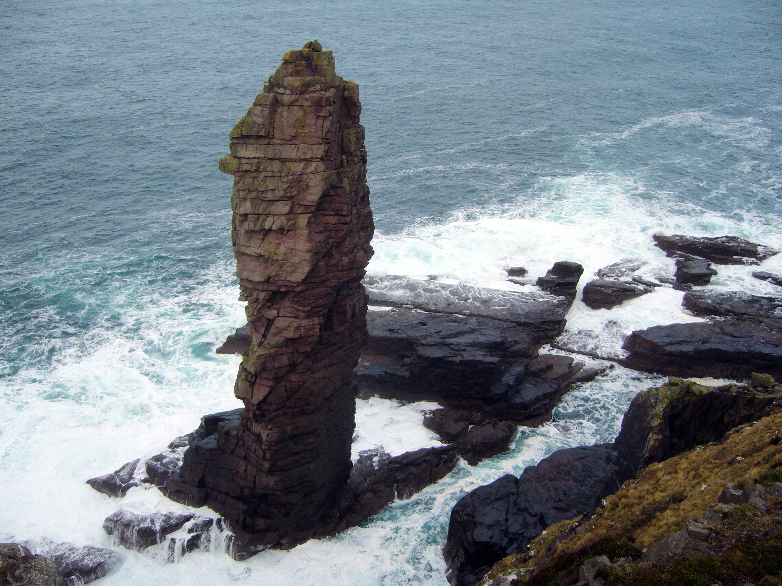 Old Man of Stoer, a 60 meter sandstone pillar at the coast of Sutherland, Scotland